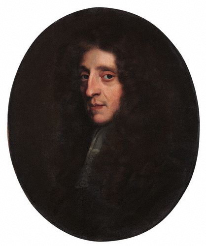 John Locke (1632-1704)